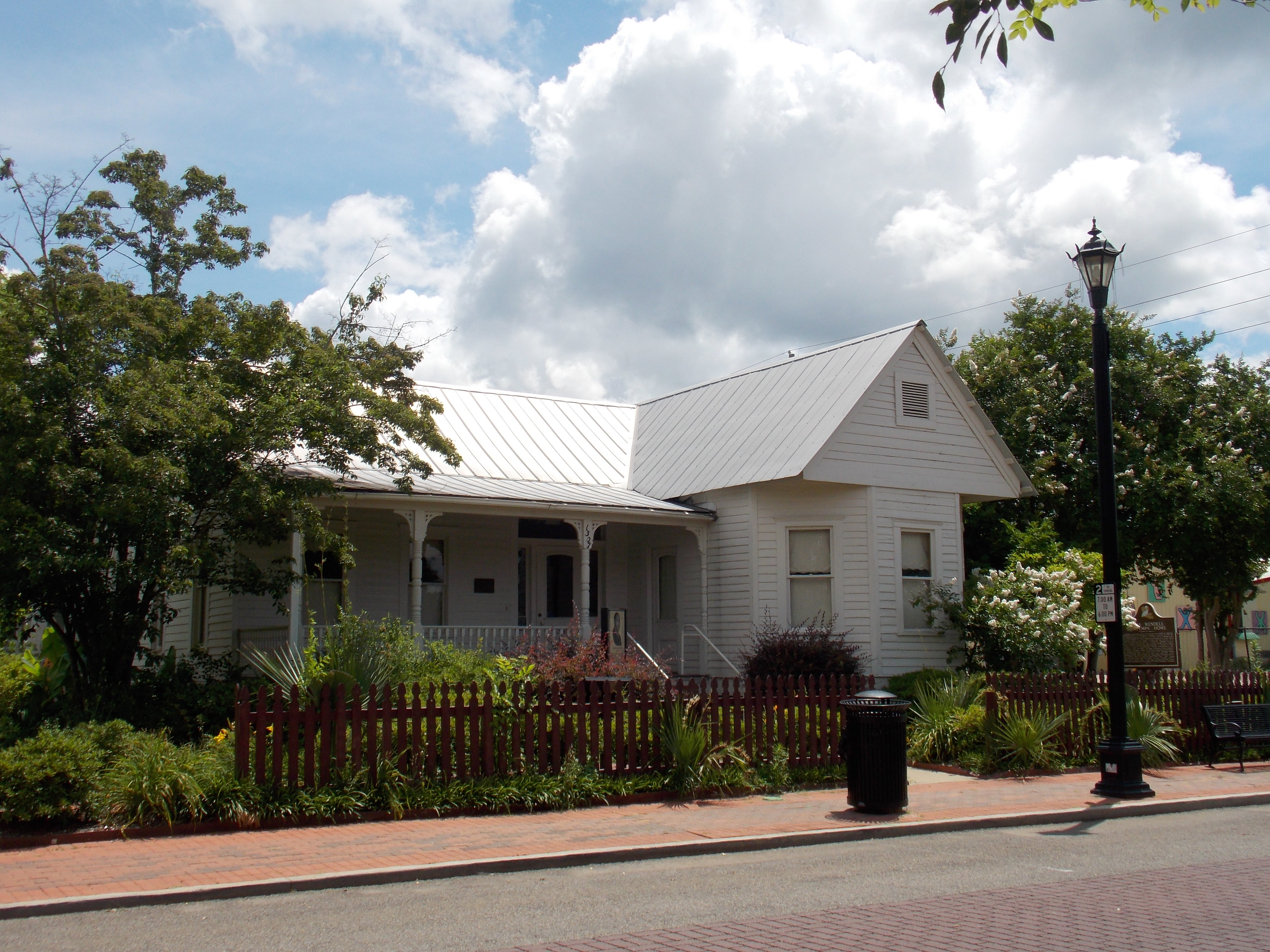 The Arna Wendell Bontemps House in Alexandria, Louisiana is listed on the National Register of Historic Places.